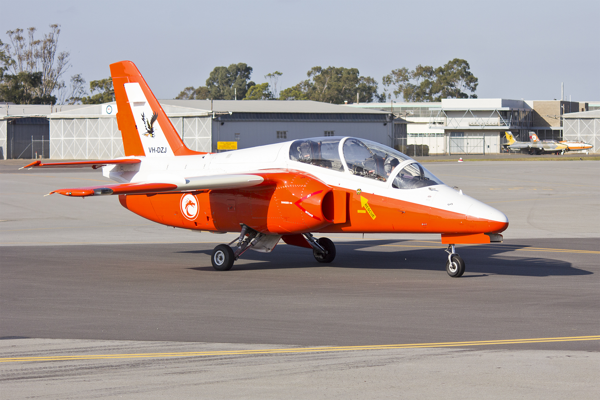 ex Republic of Singapore Air Force (VH-DZJ) SIAI-Marchetti S-211 taxiing at Wagga Wagga Airport.